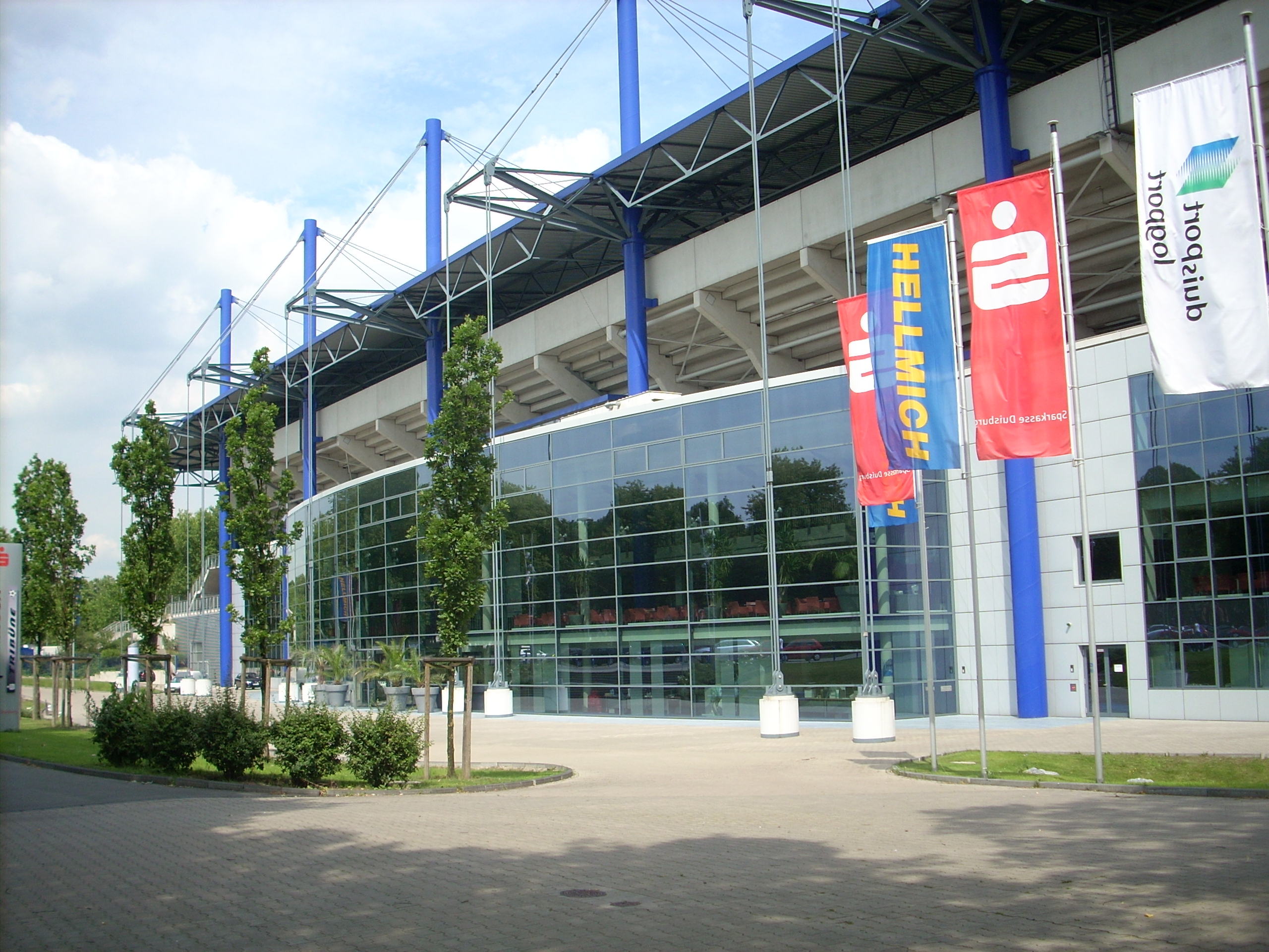 Main tribune of the arena in Duisburg